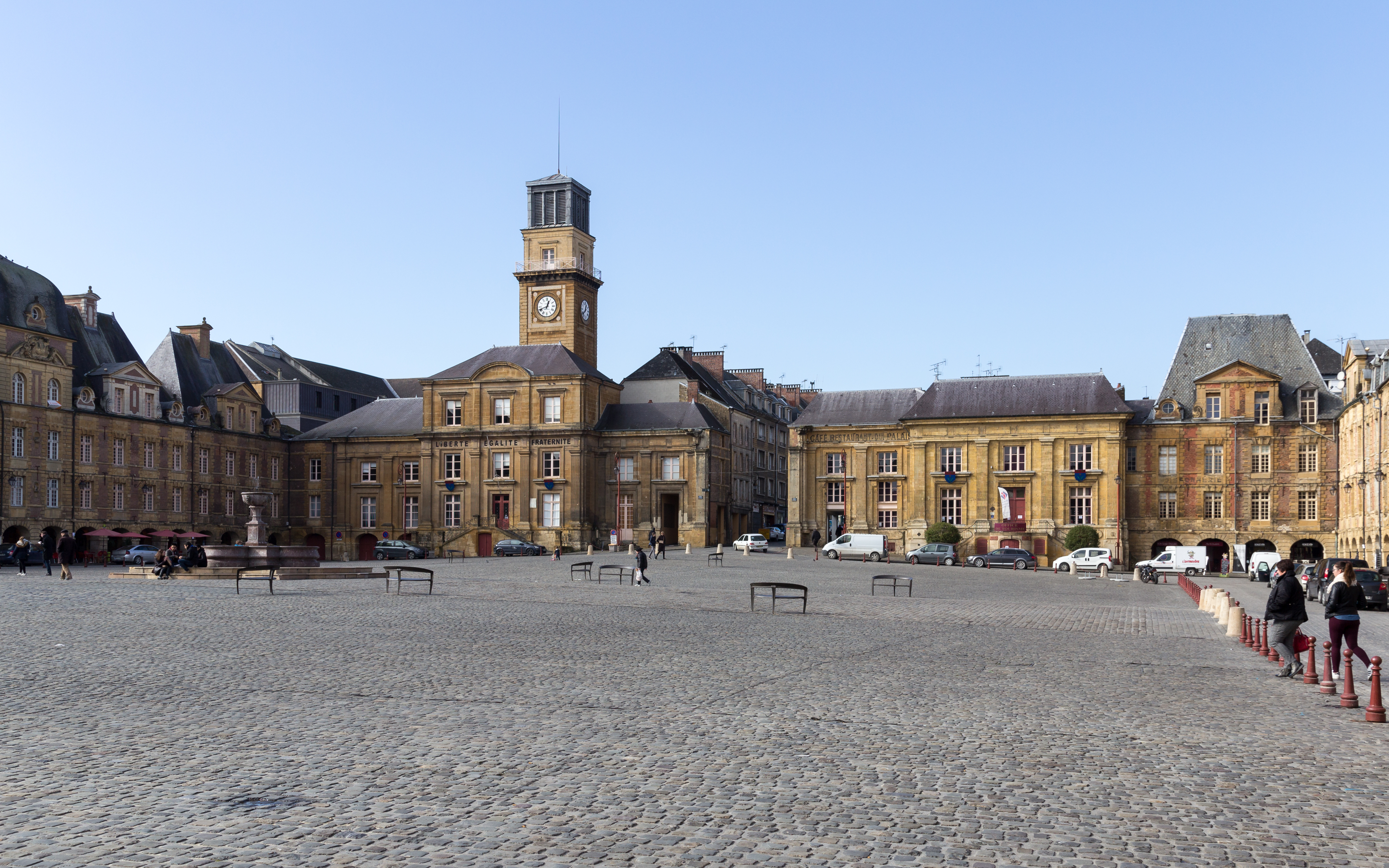 Hôtel de ville and tourist office, Charleville-Mézières, France .